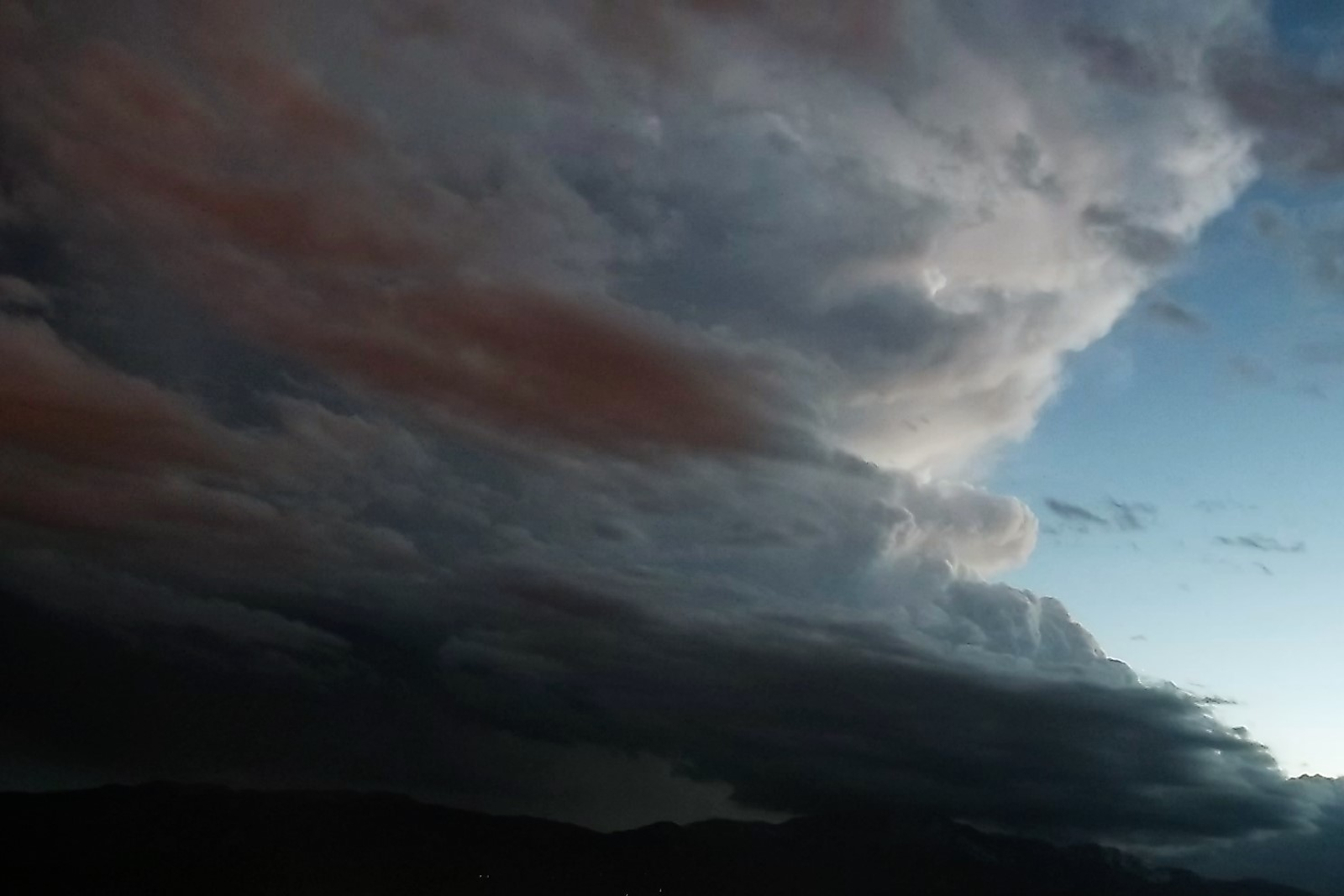 A supercell thunderstorm over Pikes Peak as seen from Palmer Park in Colorado Springs